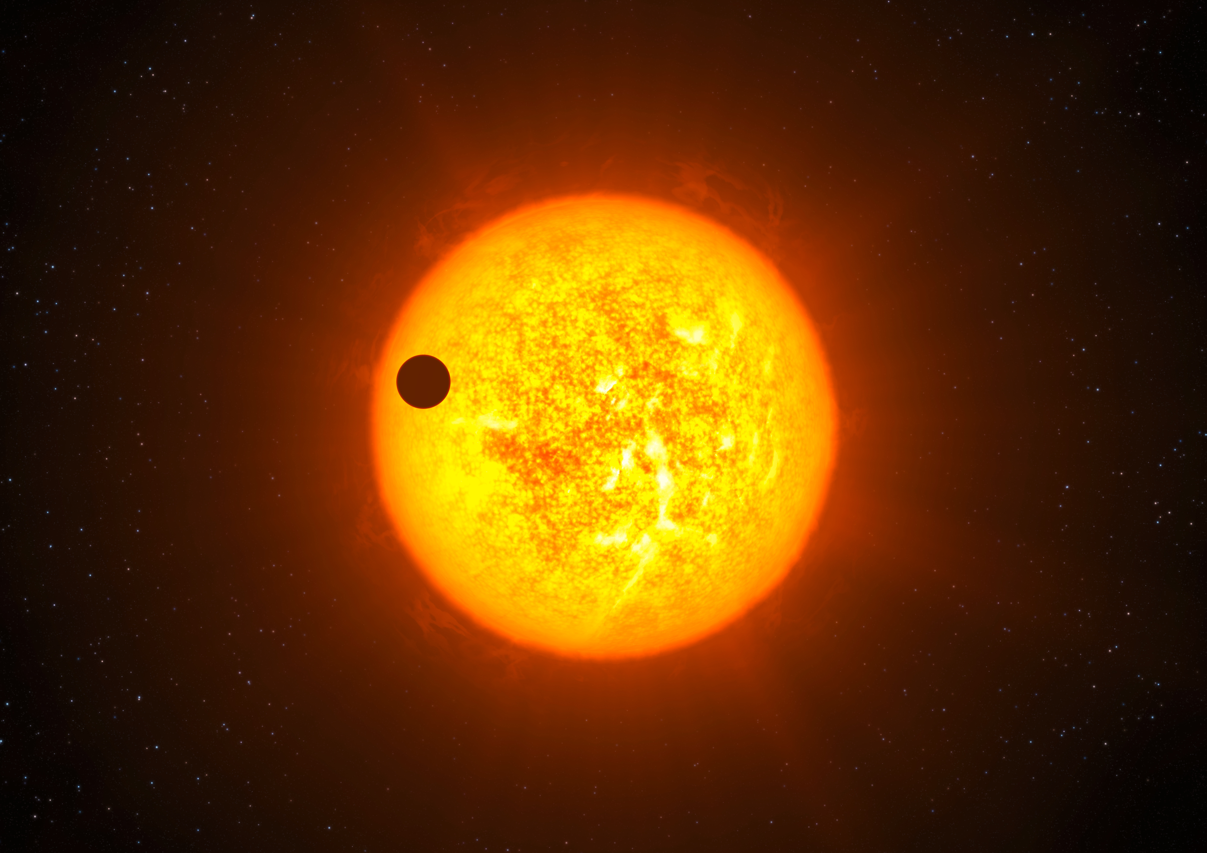 This artist’s impression shows the transiting exoplanet Corot-9b. Discovered by combining observations from the CoRoT satellite and the ESO HARPS instrument, Corot-9b is the first “normal” exoplanet that can be studied in great detail. This planet has the size of Jupiter and an orbit similar to that of Mercury. It orbits a star similar to the Sun located 1,500 light-years away from Earth towards the constellation of Serpens (the Snake). Corot-9b passes in front of its host star every 95 days, as seen from Earth. This “transit” lasts for about 8 hours. Like our own giant planets, Jupiter and Saturn, the planet is mostly made of hydrogen and helium, and it may contain up to 20 Earth masses of other elements, including water and rock at high temperatures and pressures.